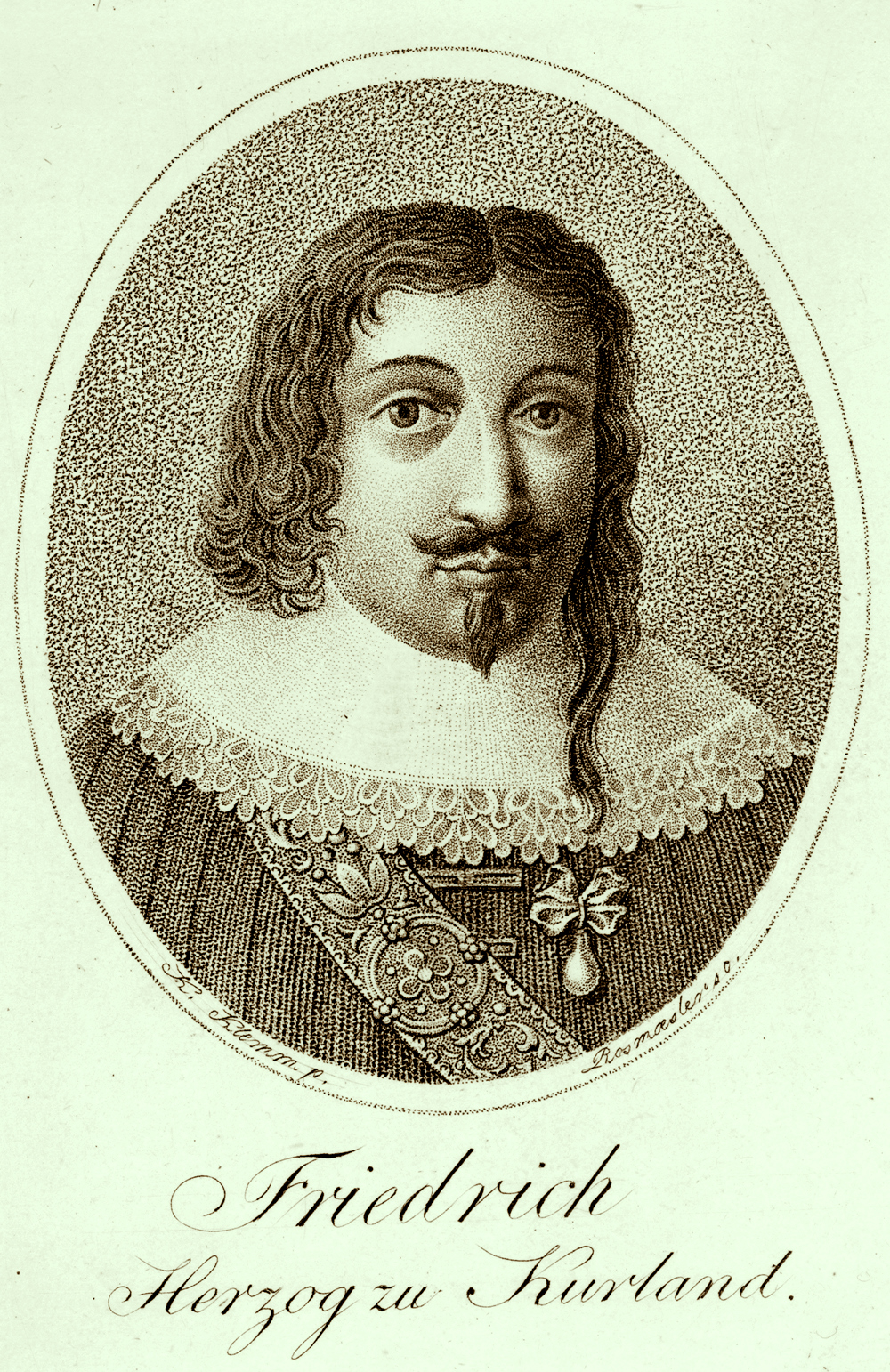 Friedrich Kettler. Duke of Courland and SemigalliaLatviešu: Frīdrihs Ketlers. Kurzemes un Zemgales hercogs.